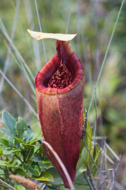 Nepenthes mantalingajanensis at its type locality on Mt Mantalingahan, Palawan (Alastair Robinson, July 2007) - pitcher showing colouration that is typical toward the more exposed summit of the mountain